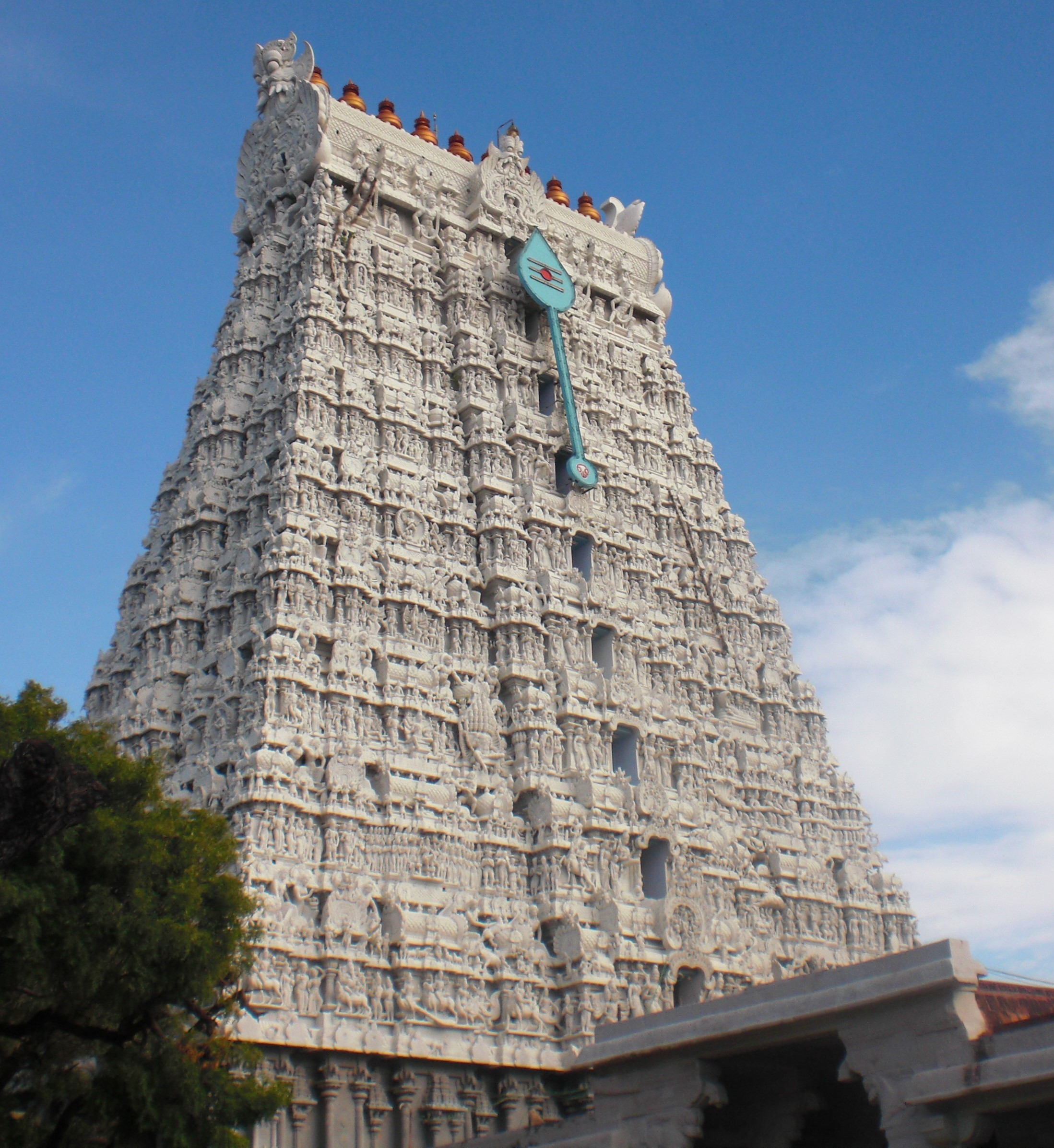 View of Thiruchedur Temple Rajagopuram